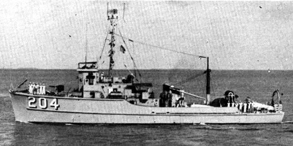 The USS Thrush steaming out of Key West. Source: US Navy Photo from the July 1959 edition of All Hands magazine. [1]